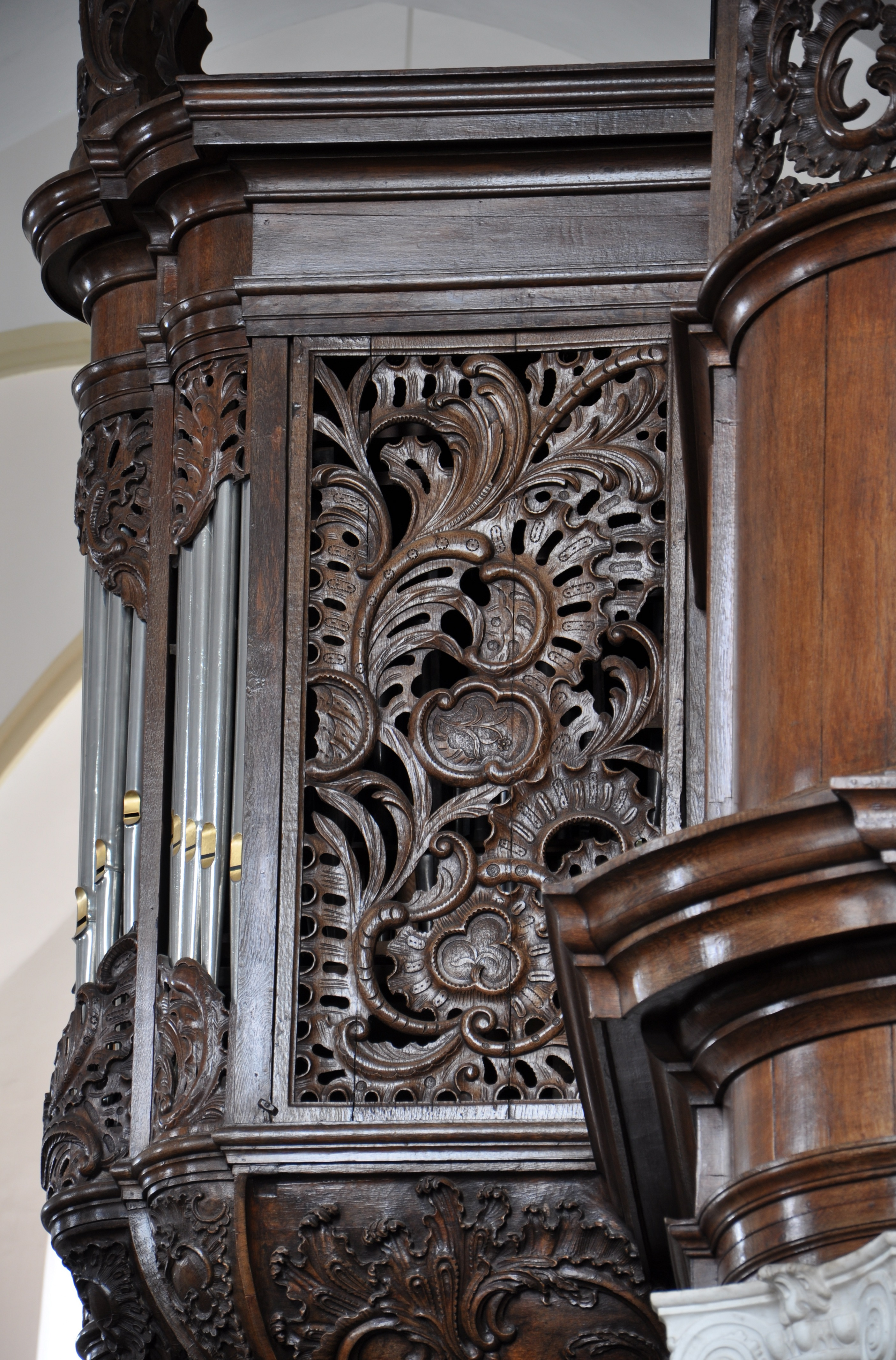 Organ at Great Church at Nijkerk (the Netherlands)